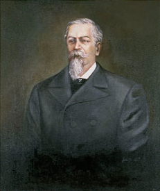 Pedro Augusto Franco, 1st Count of Restelo, (1833-1902), chemist, politician, and banker from Portugal.